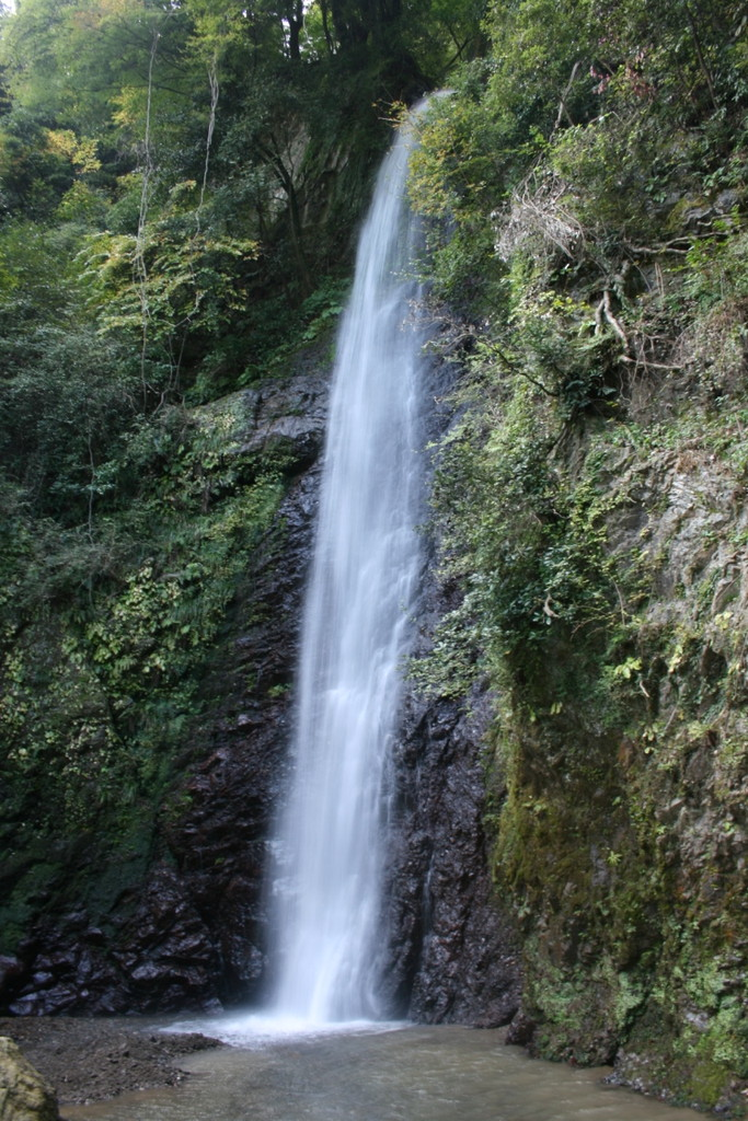 Yōrō Falls